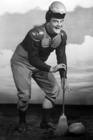 Photo of Frederick Chase Taylor as Colonel Stoopnagle from the radio program Col. Stoopnagle's Quixie-Doodles.